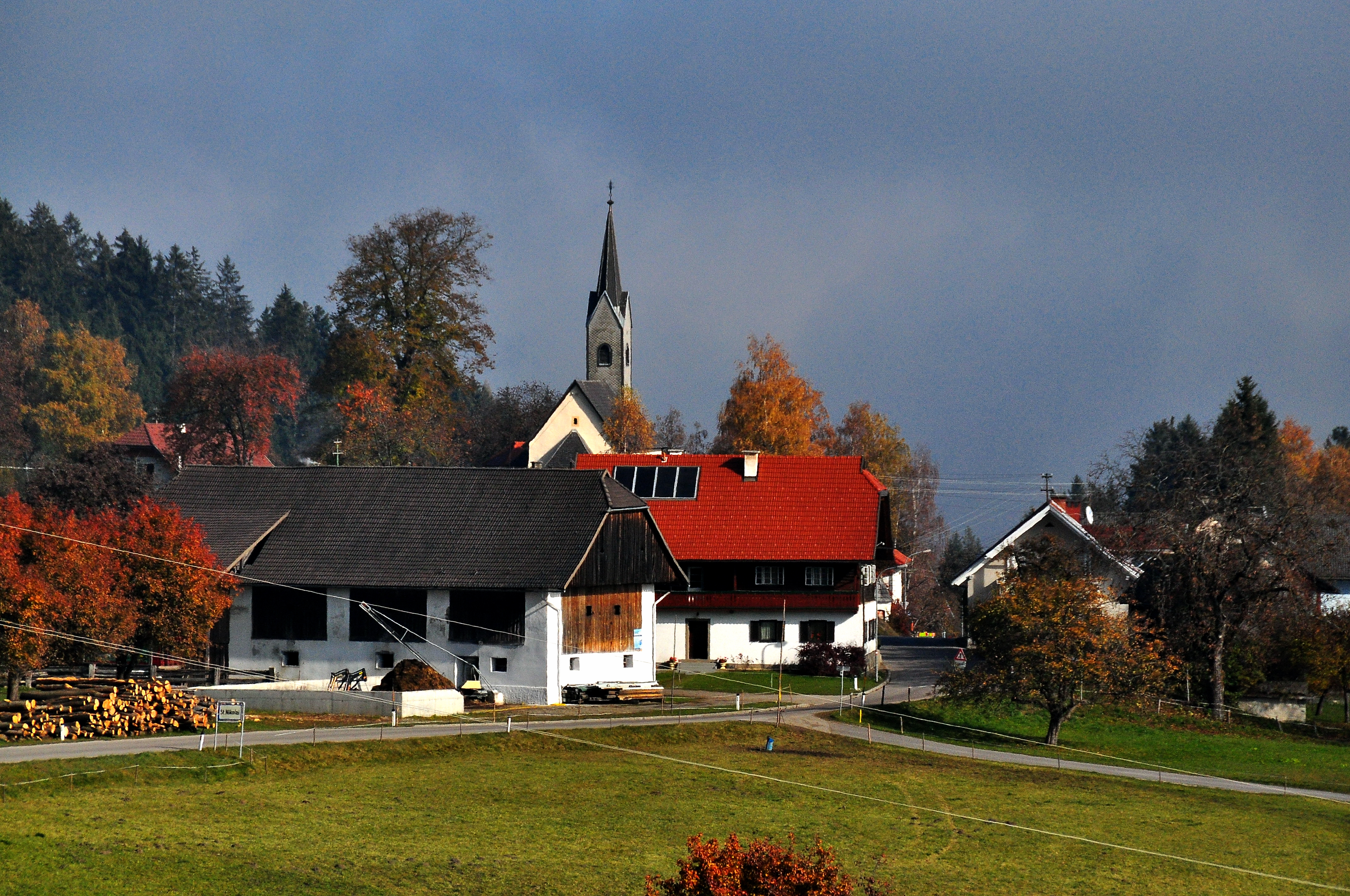 View at the village-center of Saint Nikolai in the municipality Feldkirchen, district Feldkirchen, Carinthia, Austria